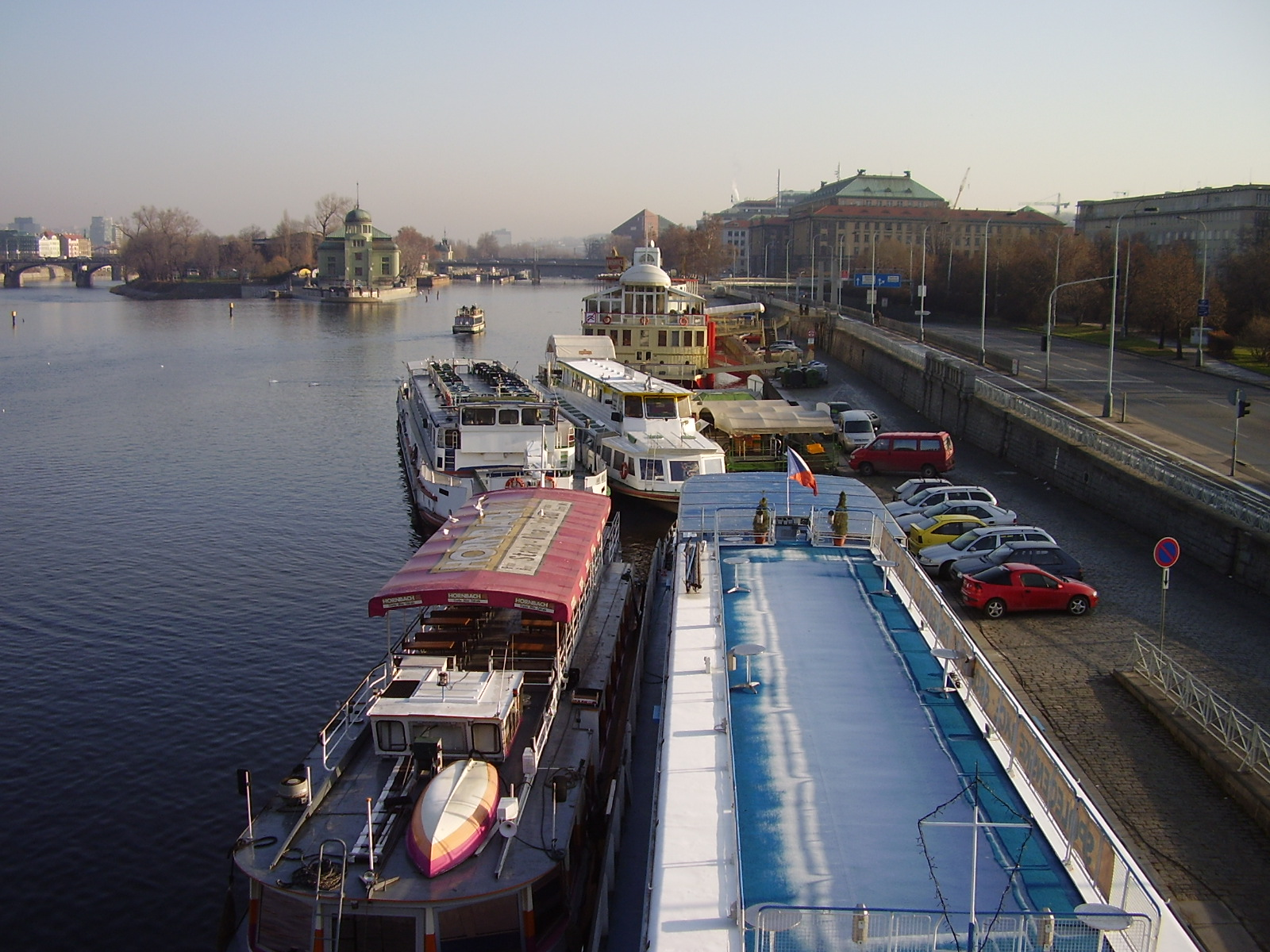 Prague november 2006